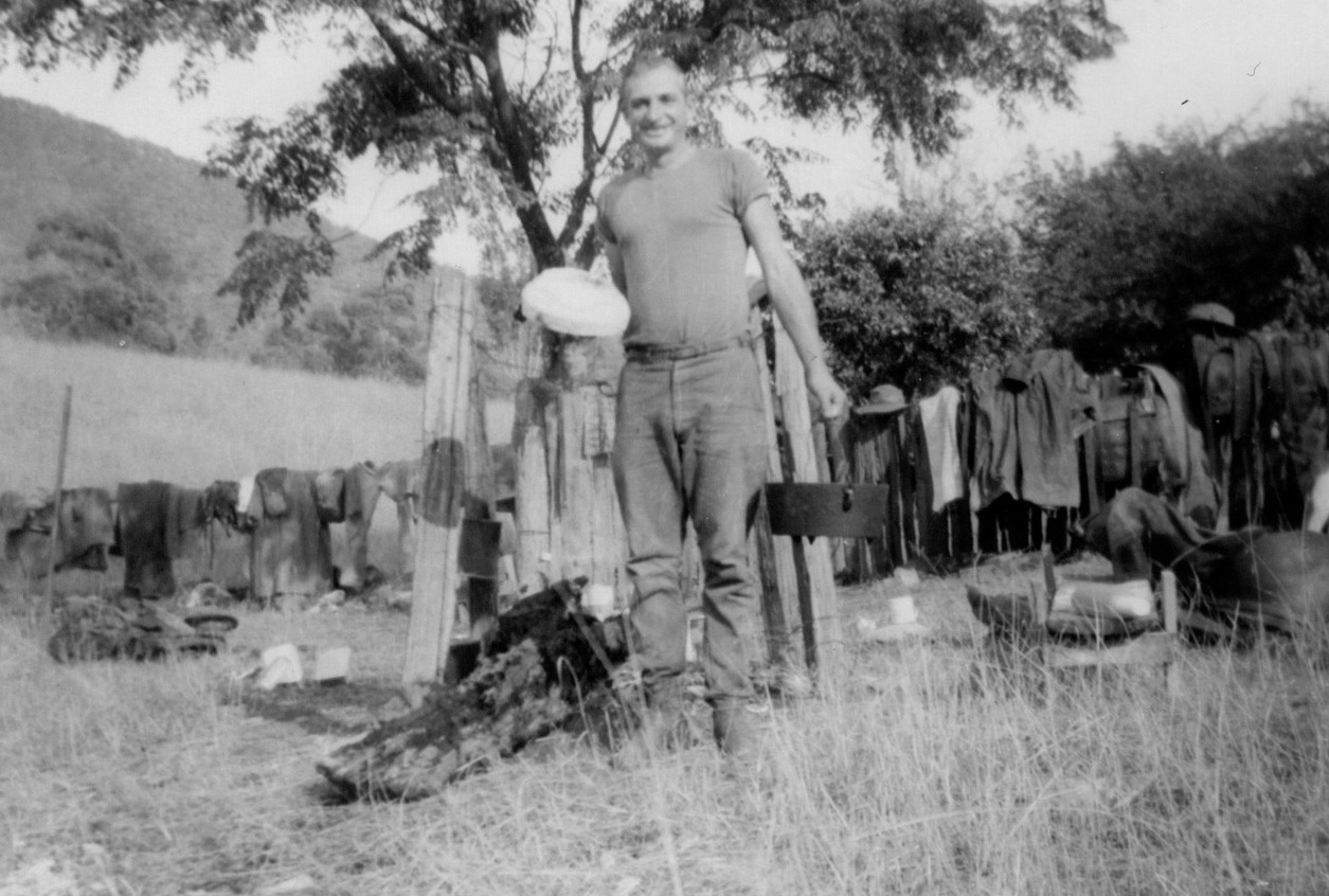 Freshly baked damper, with the camp oven that was used. Pack saddles and oilskin coats are drying on the fence, Oven Camp, Walcha, NSW.